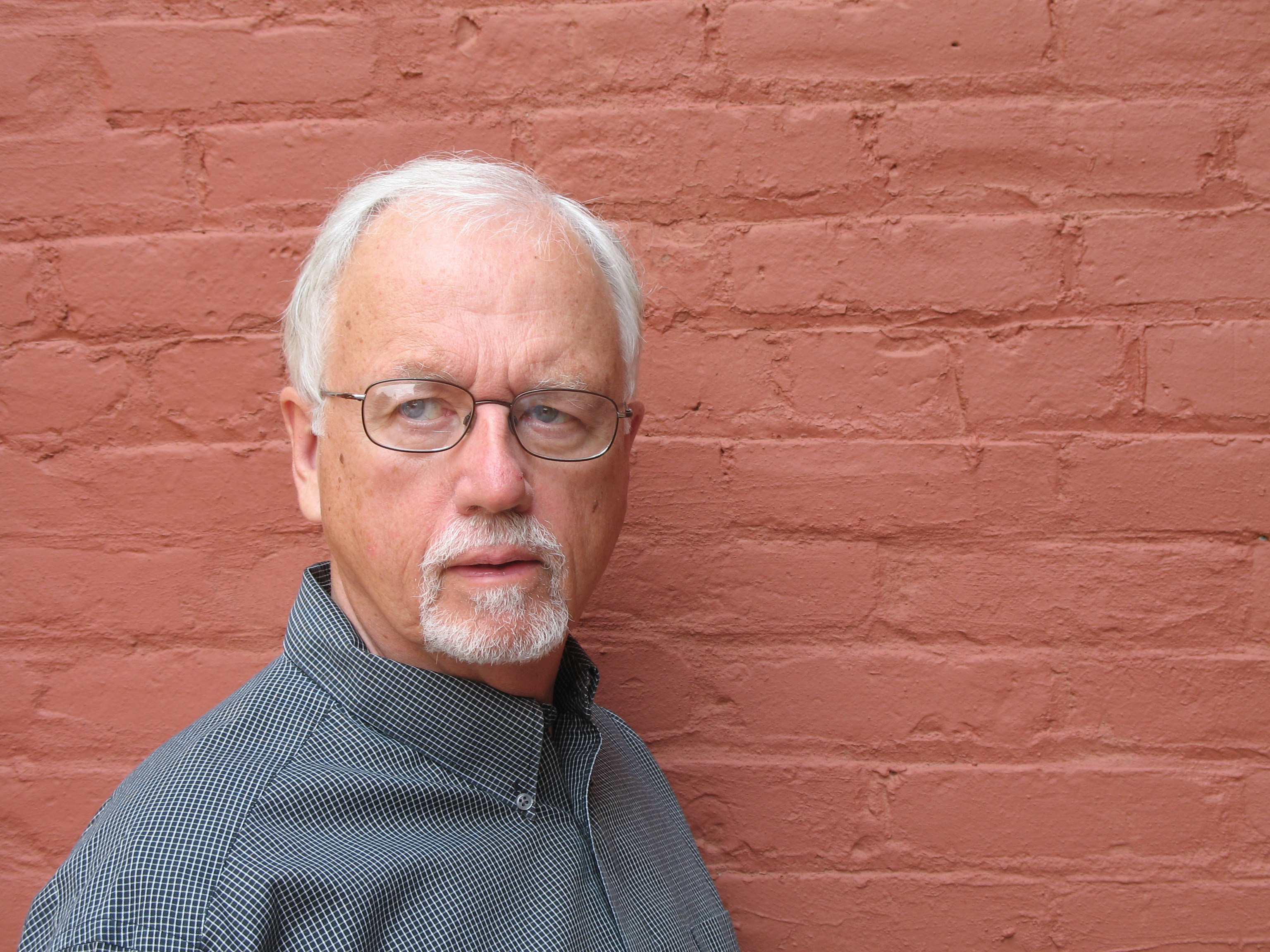 self portrait